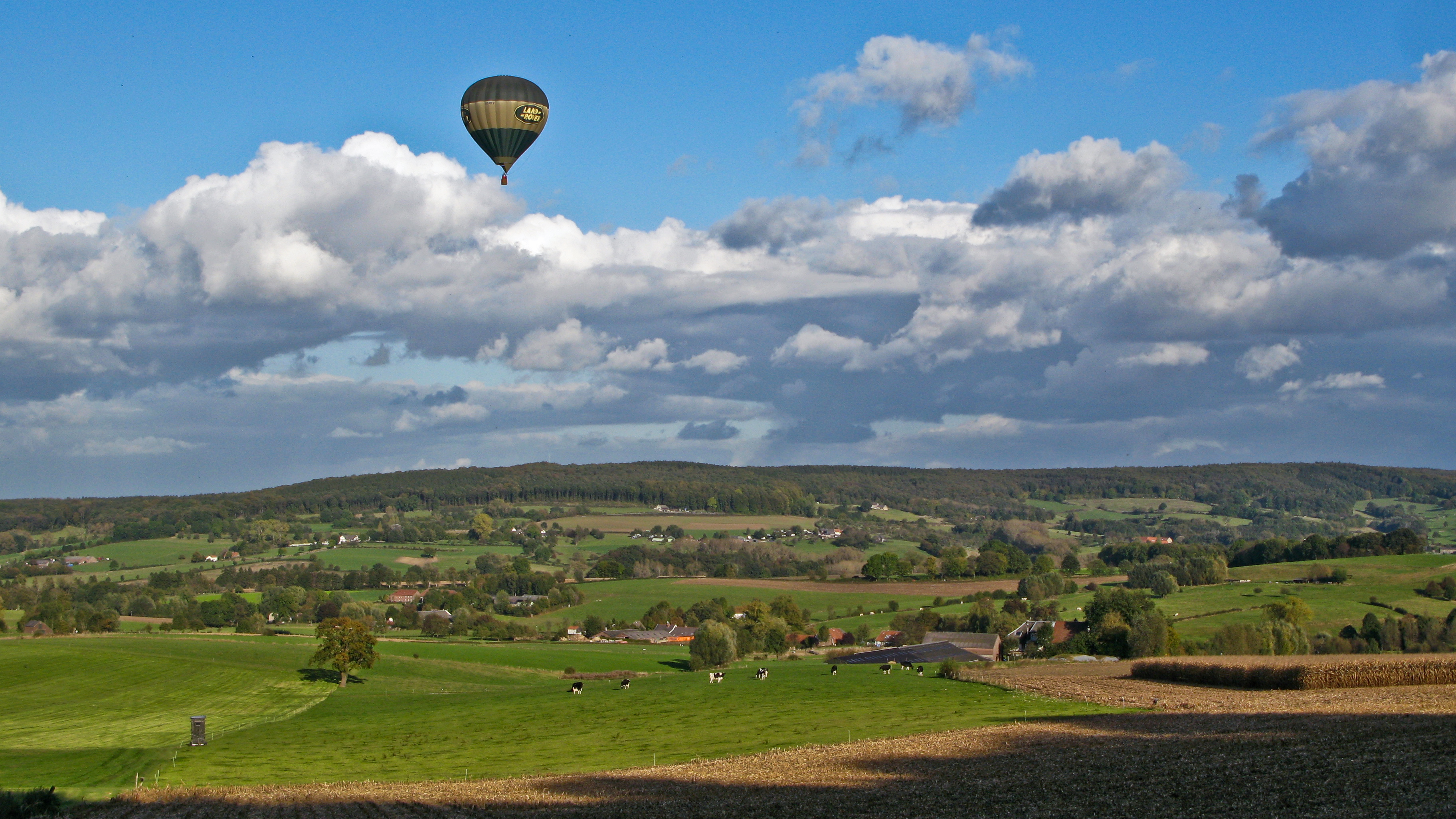 Landscape between Epen (Netherlands) and Sippenaeken (Belgium), hot air balloon